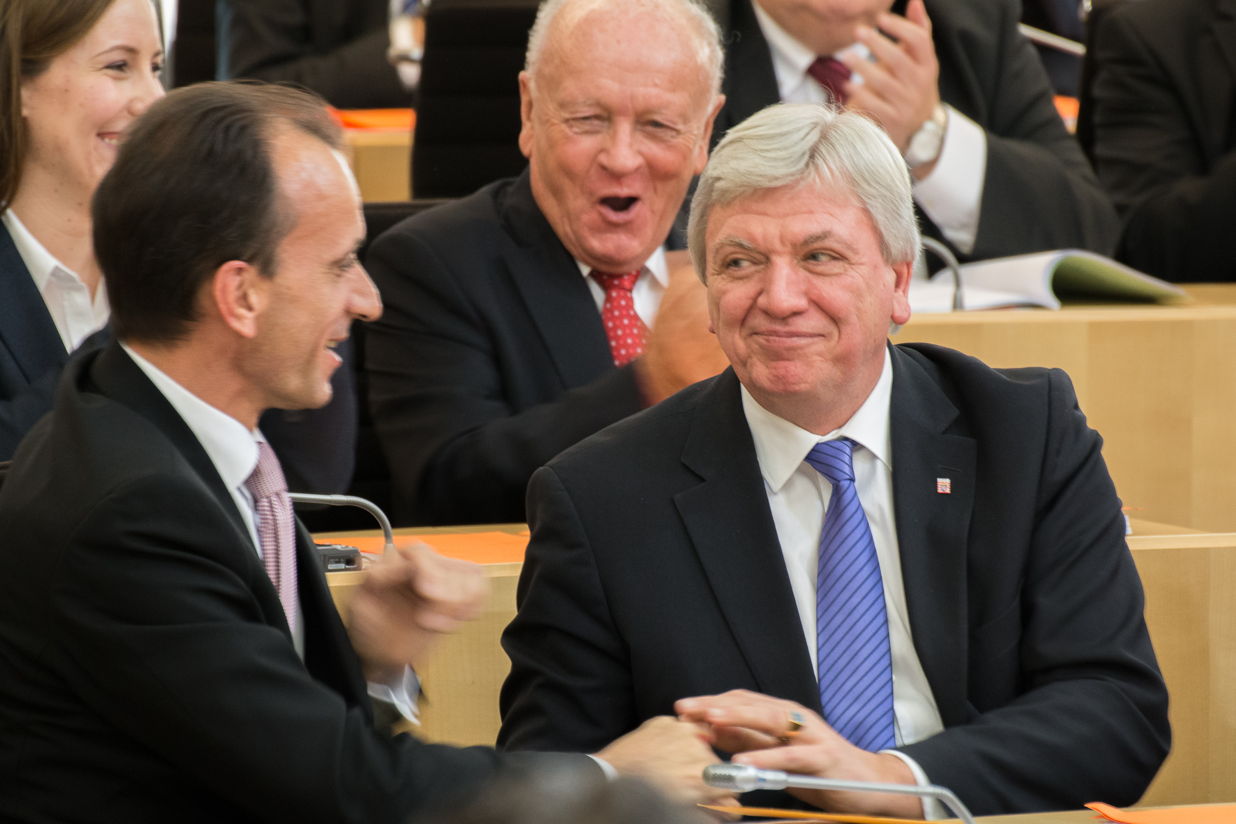 Volker Bouffier in the state parliament of Hesse directly after his election as Minister-President in January 2014